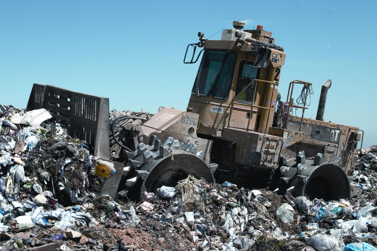 Picture of a Caterpillar 826C landfill compactor being used at an Australian landfill site.